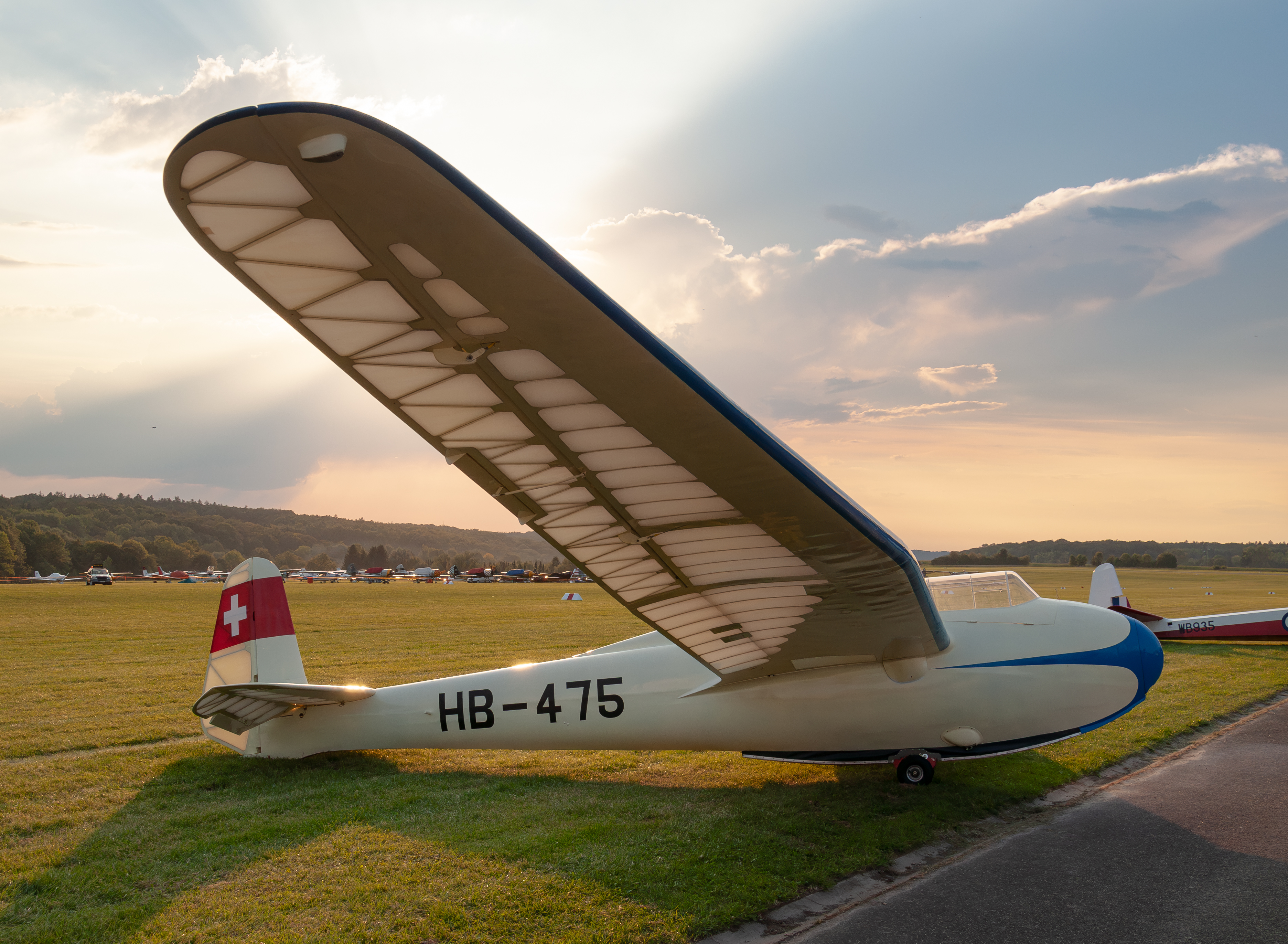 DFS Kranich II-B1 (reg. HB-475, built in 1938).